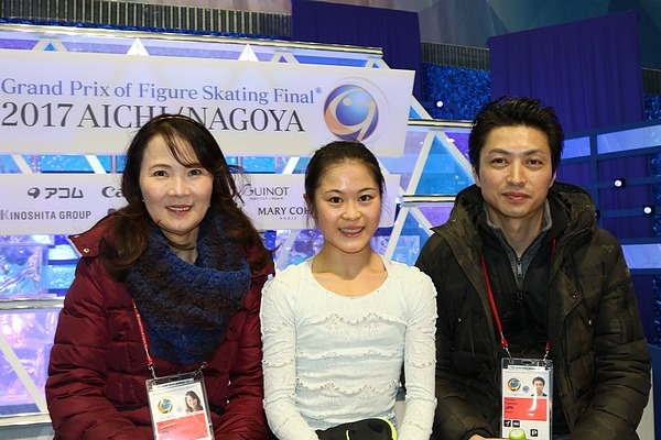 Satoko Miyahara, Mie Hamada and Yamato Tamura at the 2017 Grand Prix Final